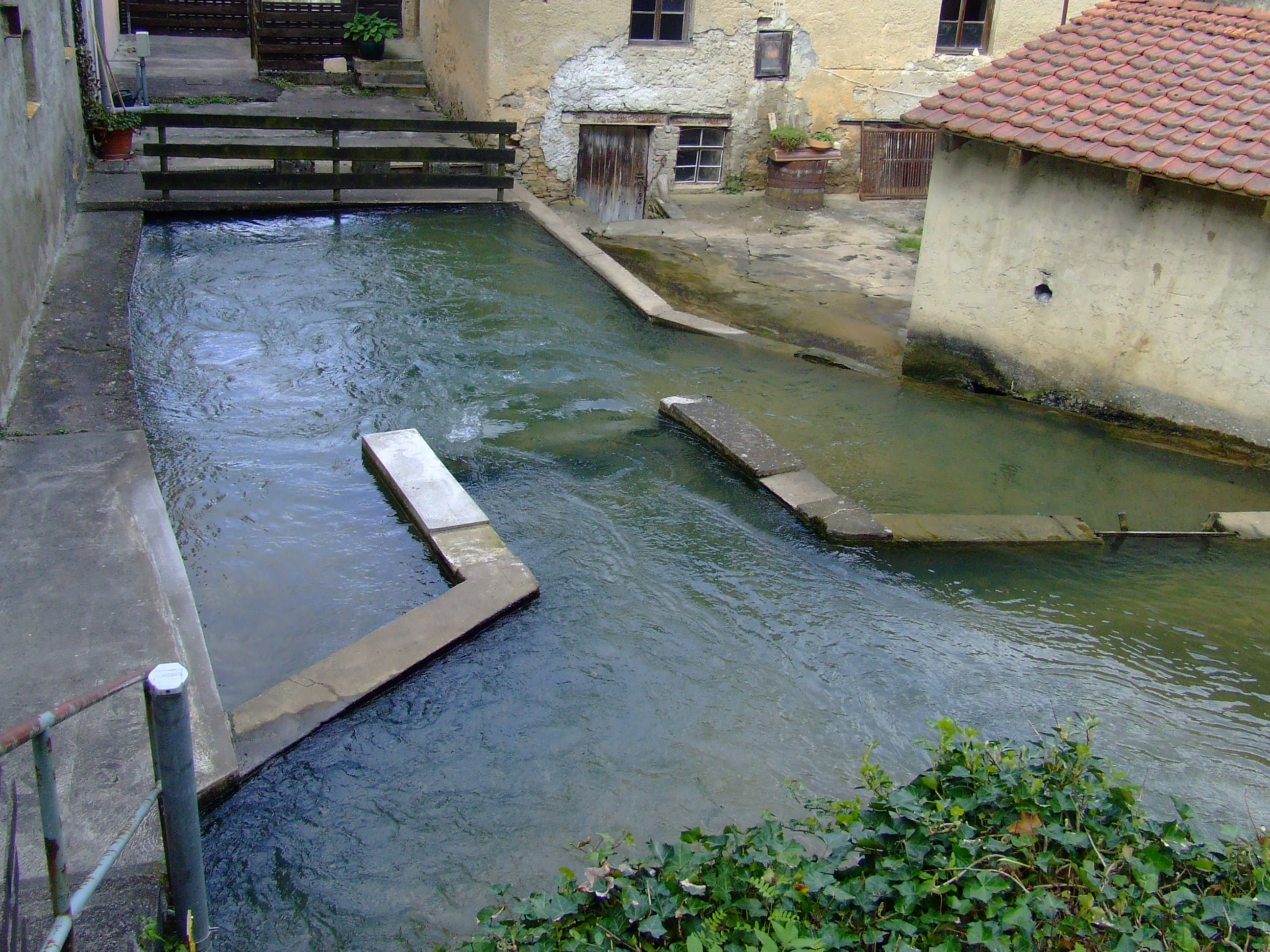 Strong Karst spring at Mörnsheim, district of Eichstätt in Bavaria, Germany.